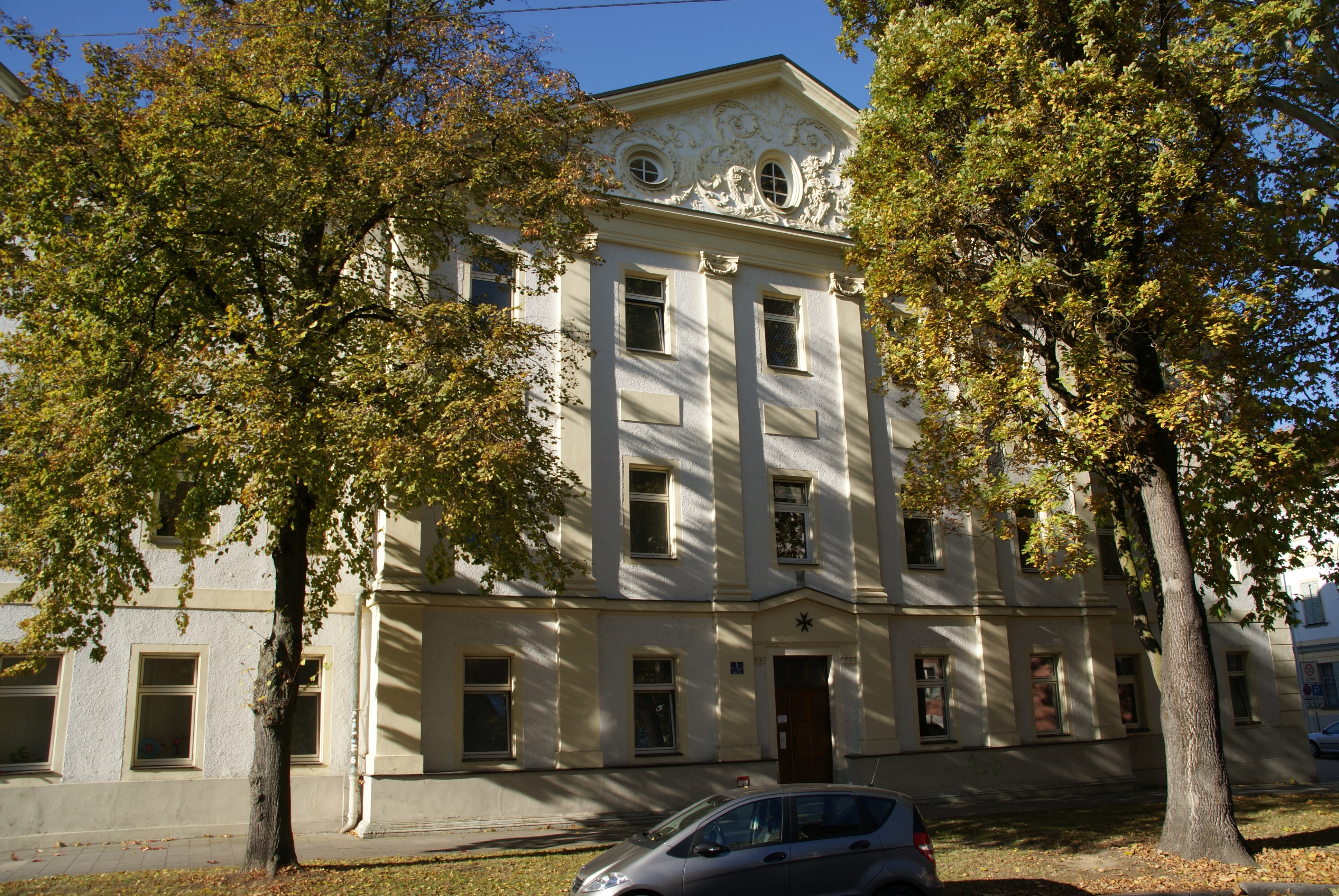 Former china factory in Regensburg, built 1804 by Emanuel d'Herigoyen, a storey was added in 1908 by Heinrich Hauberrisser.